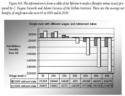 In the United States, Social Security benefits compared for younger vs. older workers. According to author Joseph Fried, this graphic uses information from: C. Eugene Steuerle and Adam Carasso, "The USA Today Lifetime Social Security and Medicare Benefits Calculator," (Urban Institute, October 1, 2004), from: Note: The calculator does not include the value or cost of the Social Security disability program.